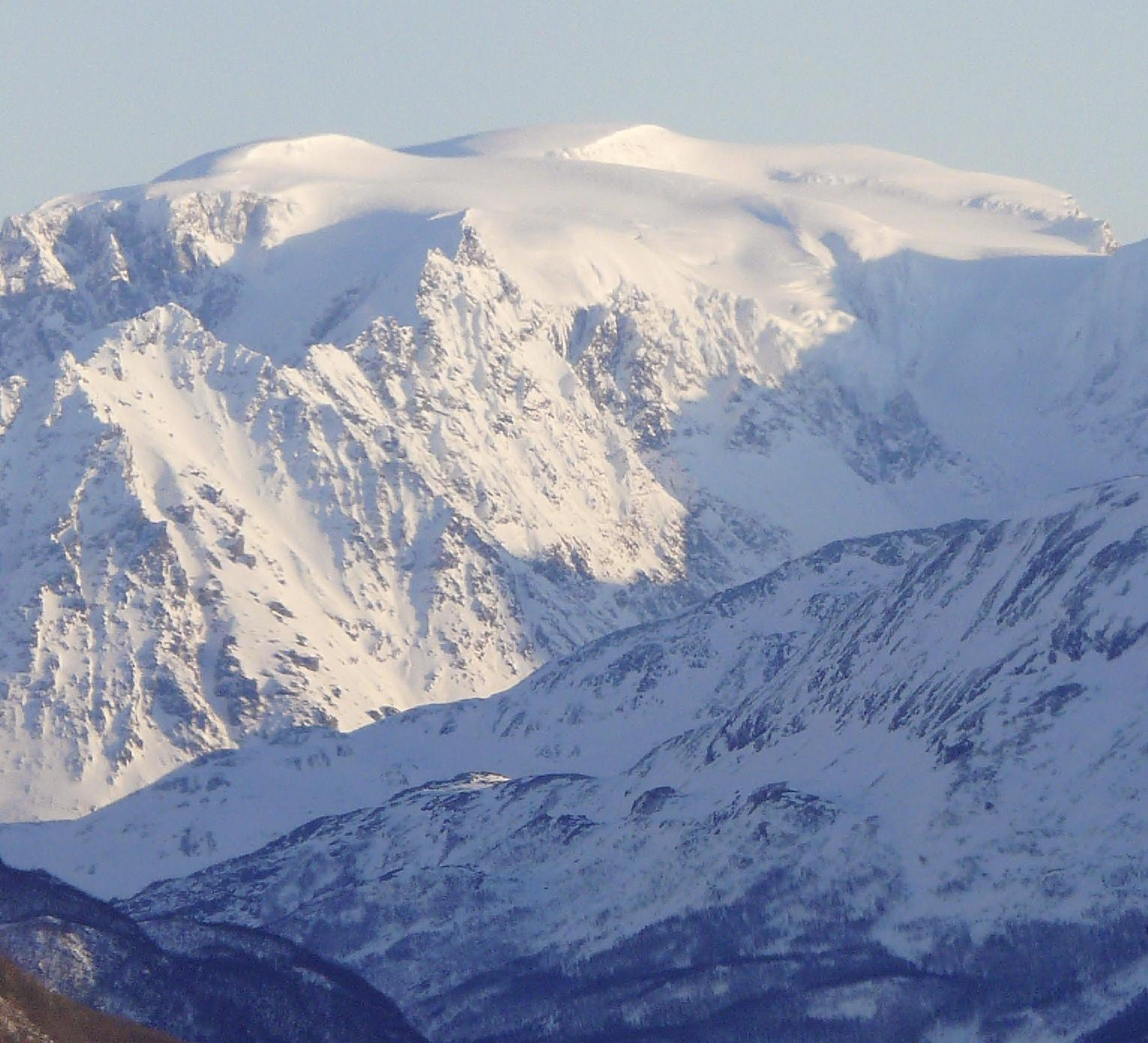 Jiehkkevárri (1,834 m) as seen from the southern coast of a part of Balsfjorden located to the north from Fugltinden (1,033 m) in 2009 February.